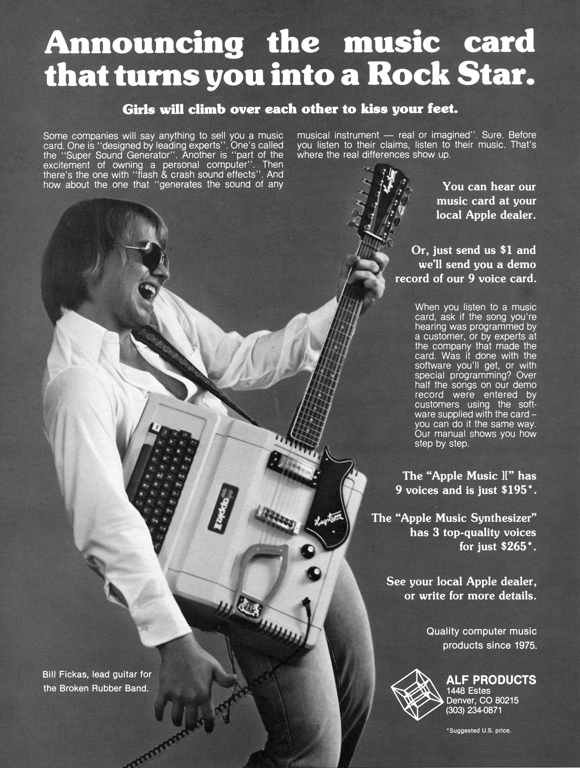 ALF Products' "Rock Star" advertisement